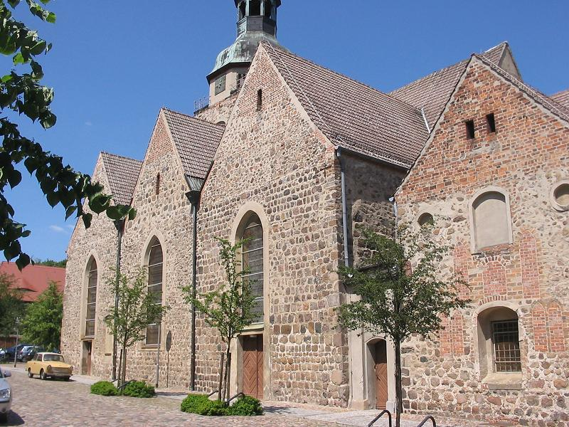 Stone church St. Marien in Belzig, built in 13th century. Belzig is the central town of the district Potsdam-Mittelmark in the state Brandenburg of Germany. Belzig appertains to the natural preserve Naturpark Hoher Fläming.